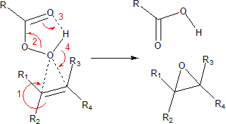 Butterfly Mechanism to synthesize epoxides.